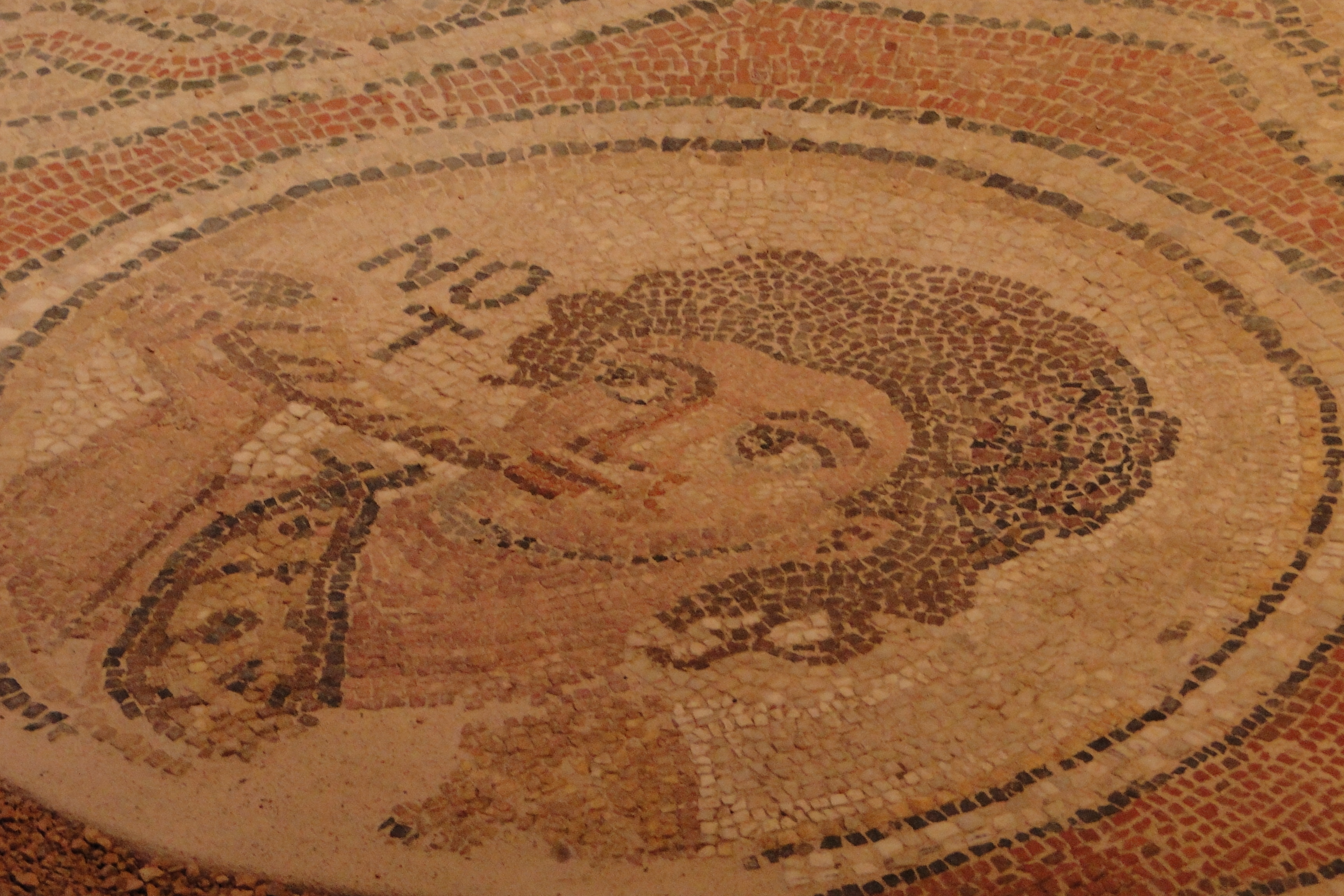 Byzantine Mosaic, Byzantine Museum of Thessaloniki.